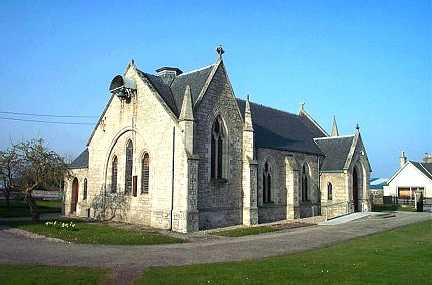 Brora, Clyne Parish Church.